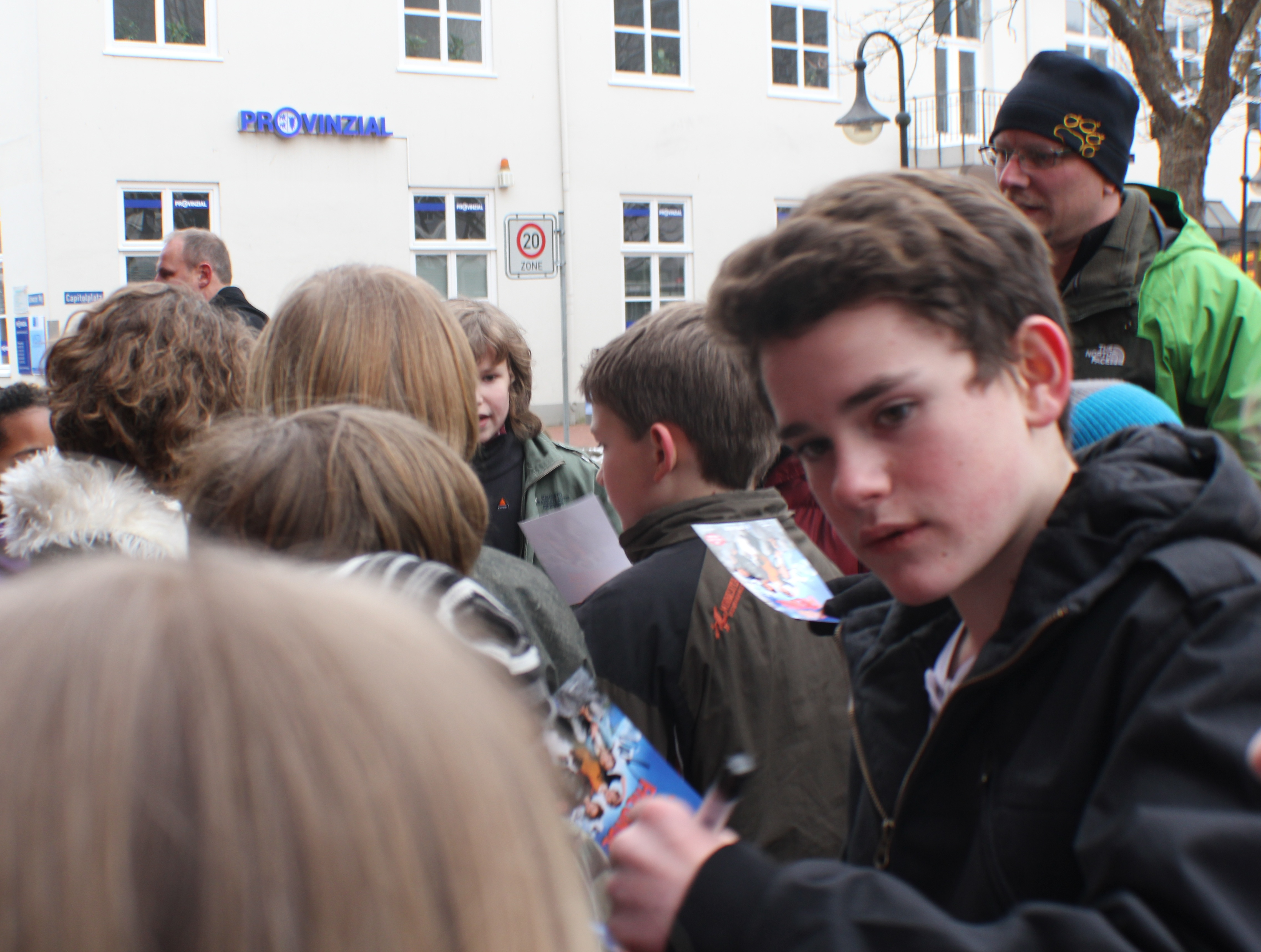 Quirin Oettl beim geben von Autogrammen in Schleswig (Fünf Freunde 2012); im Hintergrund ist Valeria Eisenbart zu sehen, die ebenfalls Autogramme gibt.